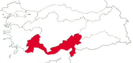 Map of Turkey with highlighted Mediterranean Region (Akdeniz Bölgesi)